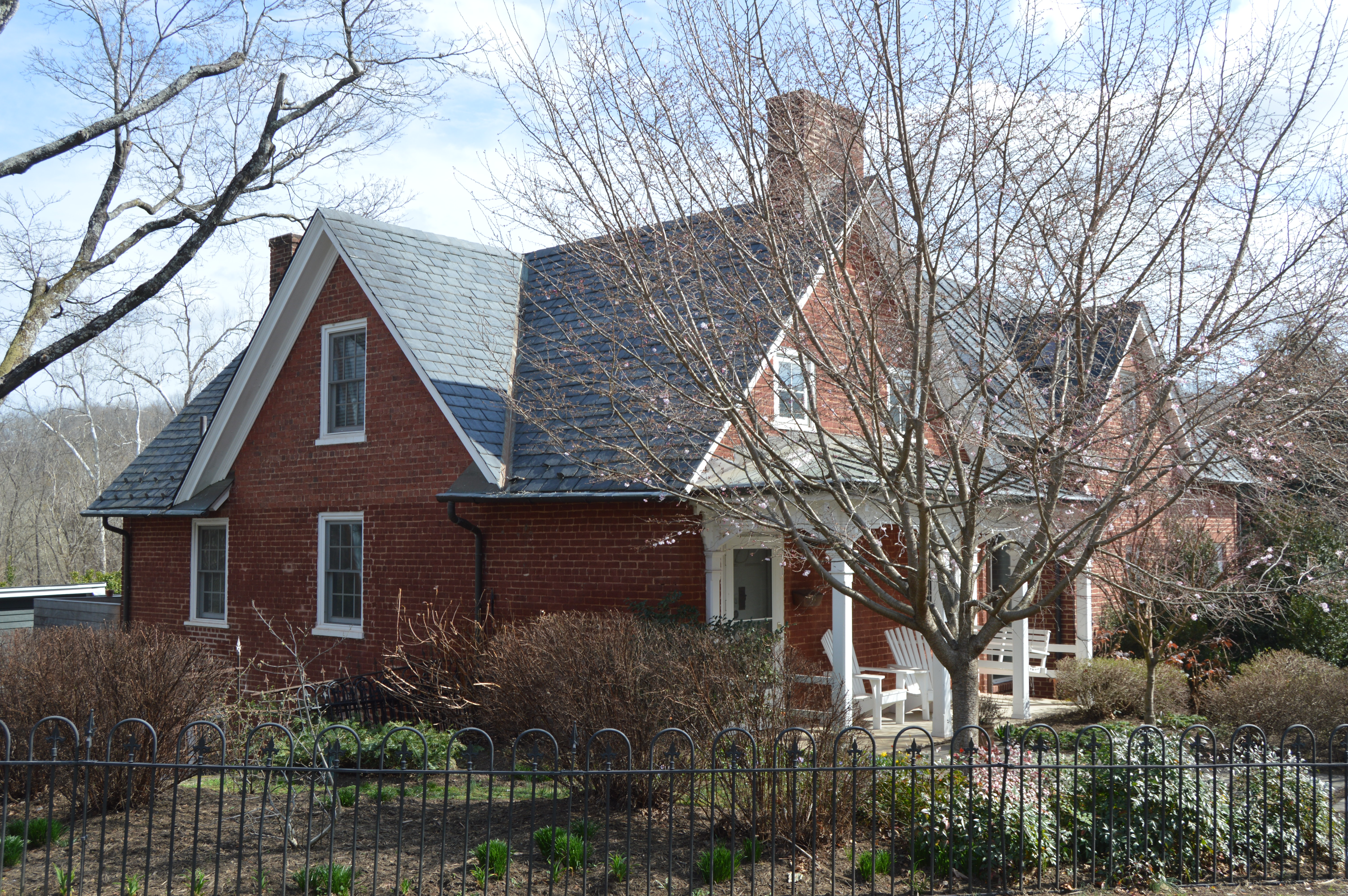 Front and western side of the former Piereus Store (now a house), located at 1901 E. Market Street in Charlottesville, Virginia, United States. Built in 1835, it is listed on the National Register of Historic Places.